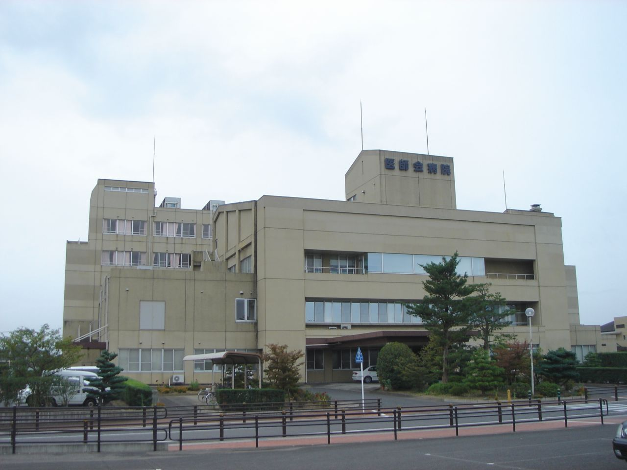 Kaizu Medical Association Hospital(海津市医師会病院),Kaizu,Gifu,Japan(岐阜県海津市)で撮影。